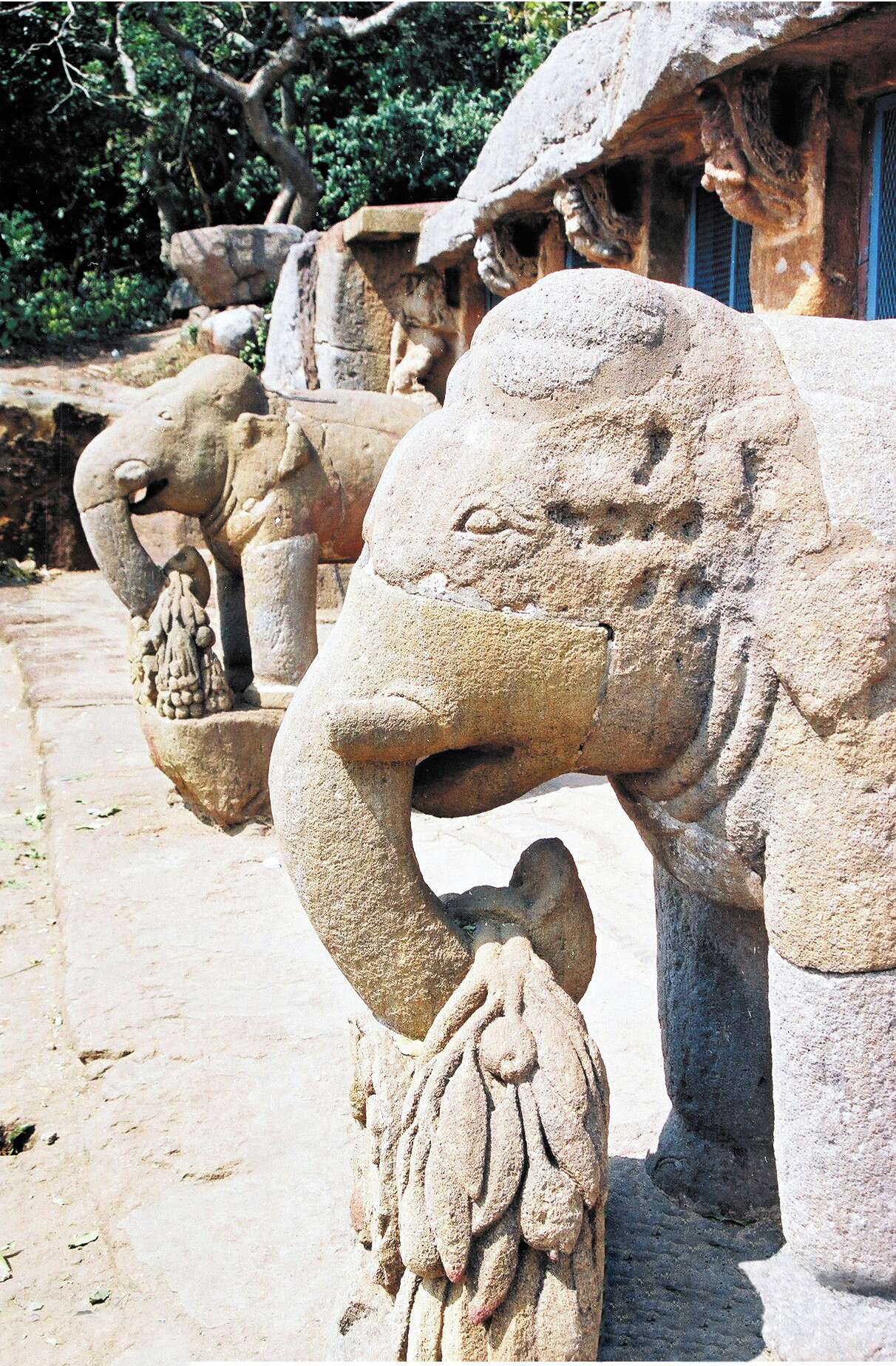 Udaygiri in orissa